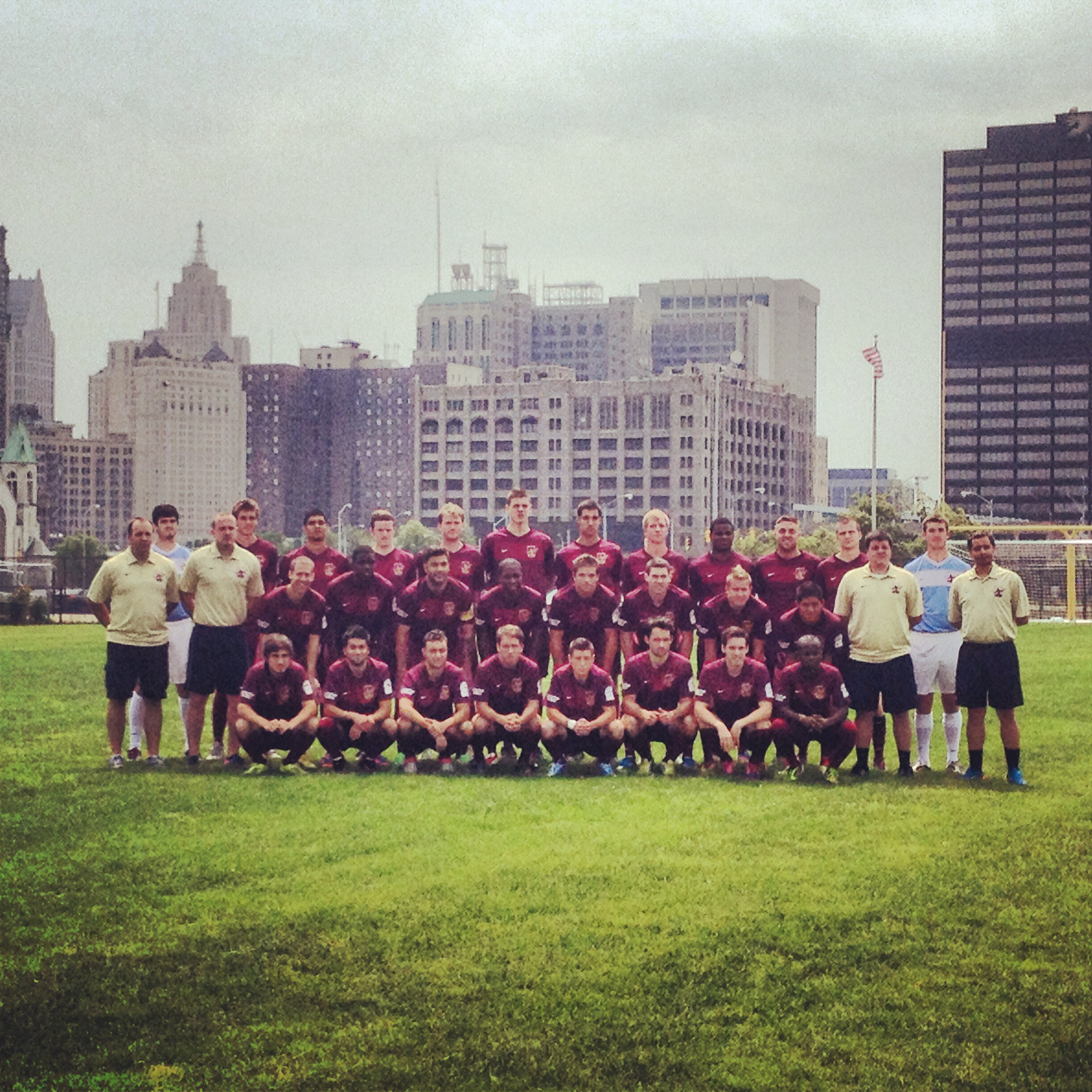 Team photo